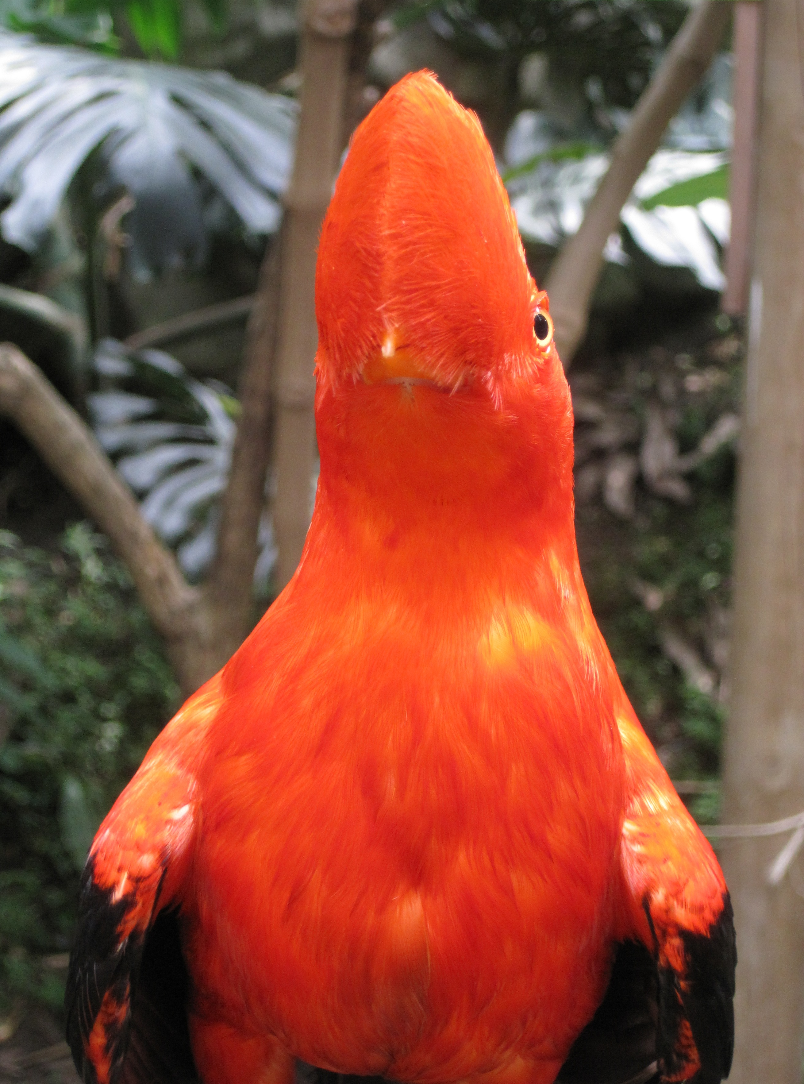 Andean Cock-of-the-rock at Cali Zoo, Colombia.